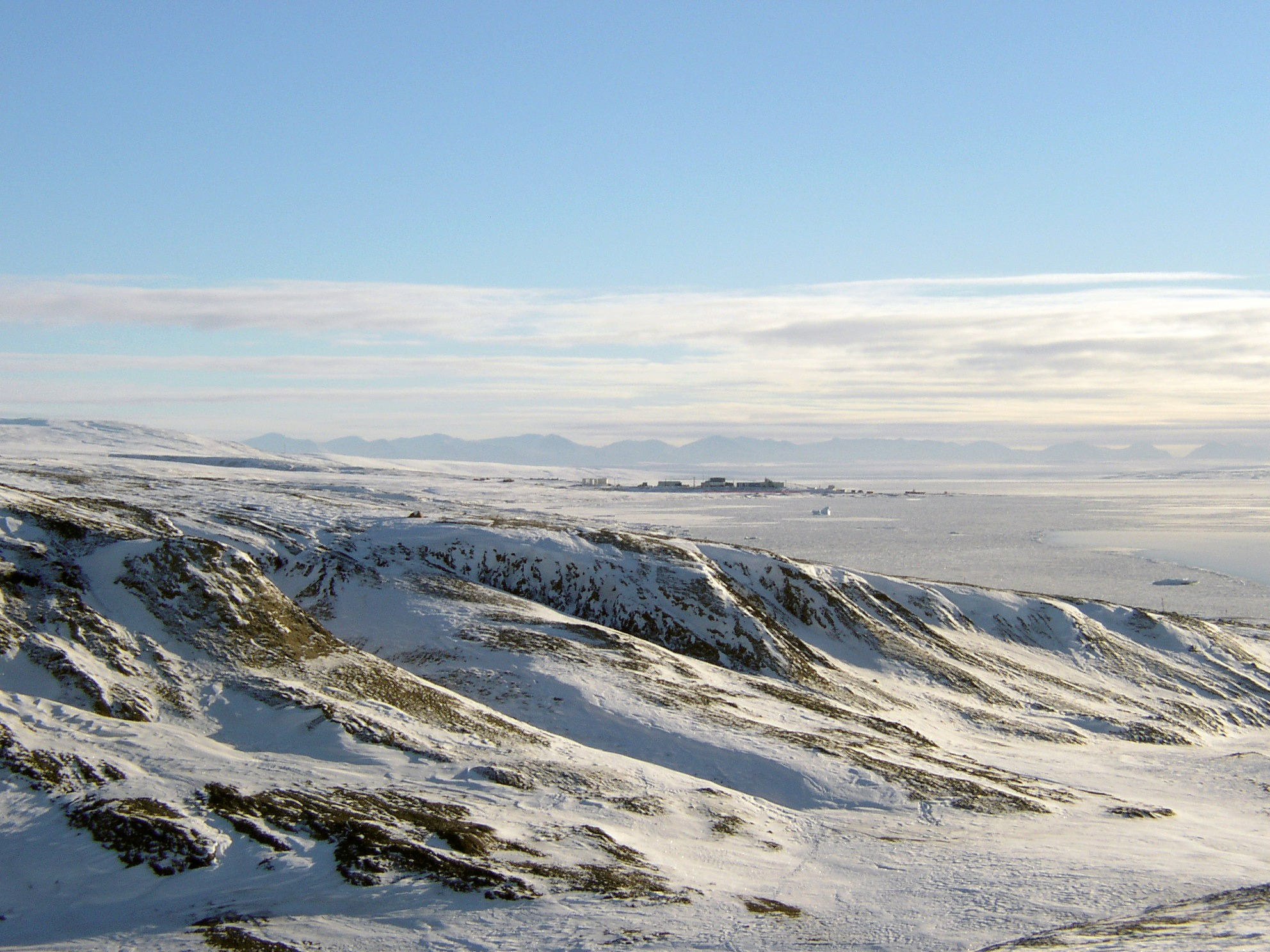 Eureka Weather Station, seen in the distance, on Ellesmere Island in Canada’s Nunavut province, about 690 miles from the North Pole.